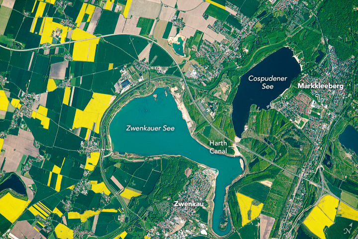 About 200 kilometers (120 miles) southwest of Berlin lies an area of Germany known as Neuseenland (“New Lakelands”). Located in the Leipzig district, this area is the site of a massive project to transform the landscape into a series of lakes and interconnected rivers. In this photograph taken by astronauts aboard the International Space Station, we see two manmade lakes surrounded by rapeseed, wheat, and potato fields. The Zwenkauer See, first excavated in 1921, and the Cospudener See, dug in 1981, started as open-pit lignite mines. They yielded a combined total of 610 million tons of lignite, a type of brown coal used extensively by Germany. As a result of these mining operations, the nearby land was severely scarred: rivers were redirected, forests were cut down, and thousands of nearby residents were relocated. Activism by the citizens of Zwenkau and Markkleeberg in the early 1990s resulted in the permanent shutdown of the mines. Rehabilitation of the region began shortly thereafter. Both mines were slowly flooded over a period of eight years through a process of river channeling, and they have become two of the largest lakes in the area. The Harth Canal is now under construction today between the Zwenkauer and Cospudener Sees. It will enable boats to sail from Zwenkau Harbor to the city of Leipzig, about 12 kilometers (8 miles) to the northeast. Thanks to the development of the lakes, surrounding towns such as Markkleeberg and Zwenkau are becoming more popular with tourists.